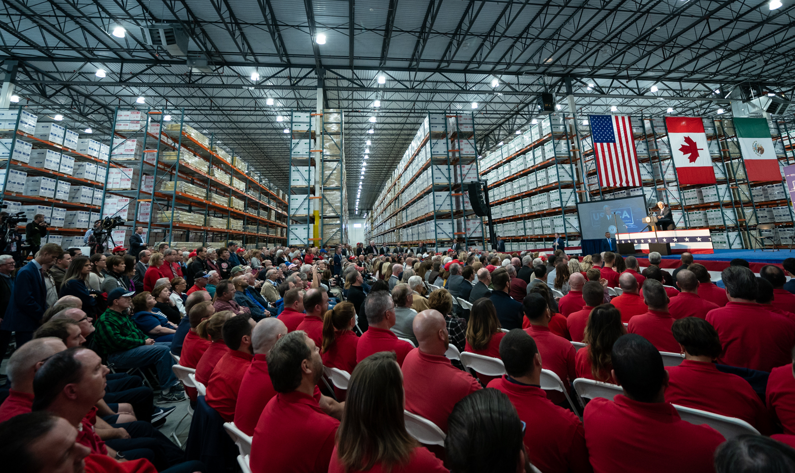 Vice President Mike Pence delivers remark at a U.S., Mexico, and Canada Agreement Wednesday, Oct. 23, 2019, at the Uline Distribution Warehouse in Pleasant Prairie, Wisconsin. (Official White House Photo by Myles Cullen)